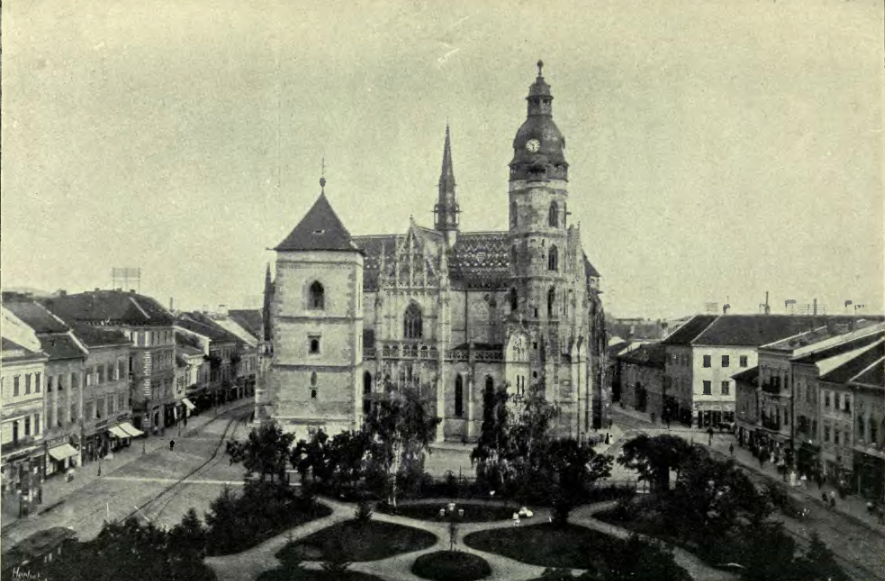 Cathedral at Košice